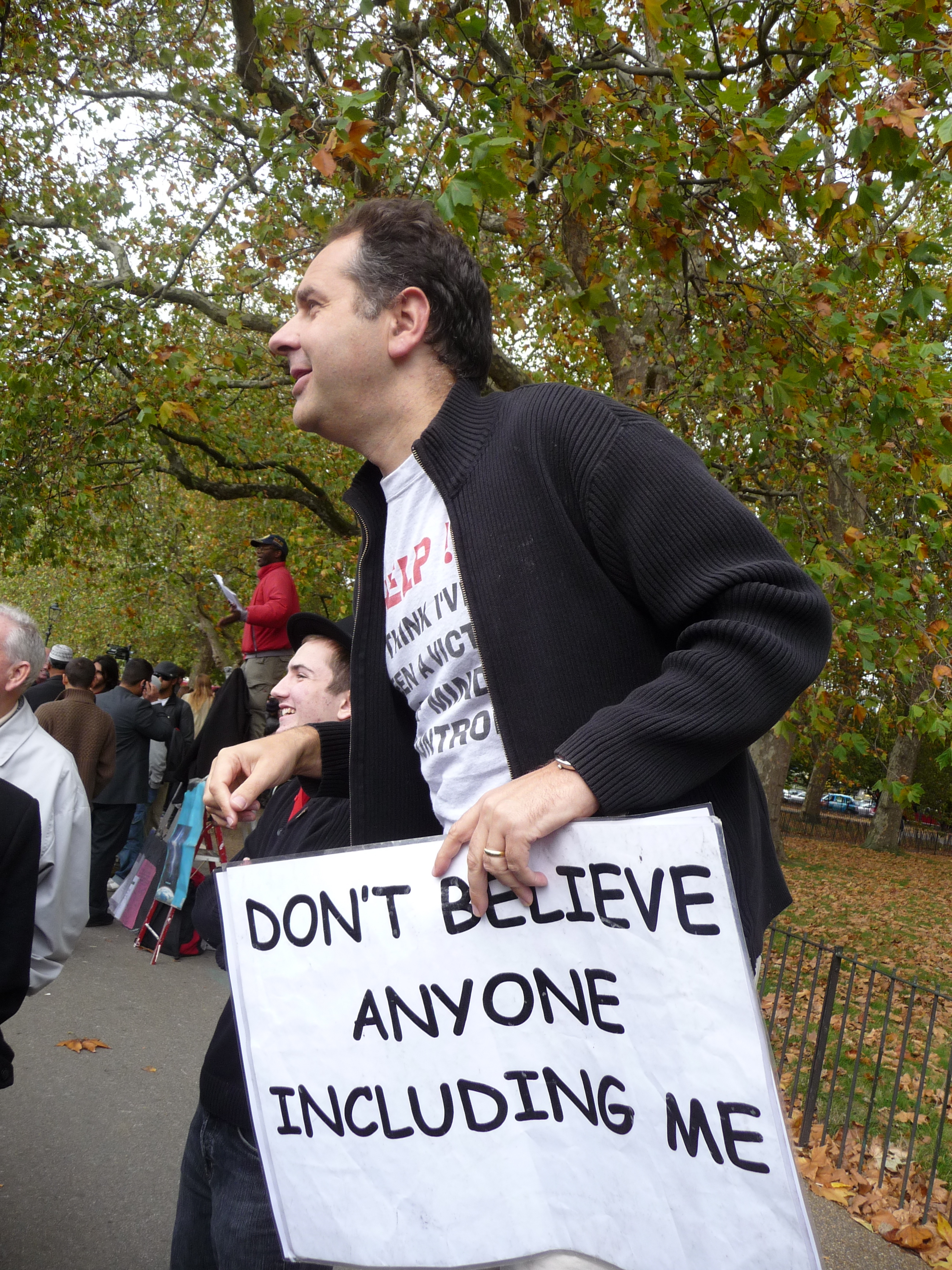 Danny Shine - Regular at Speaker's Corner